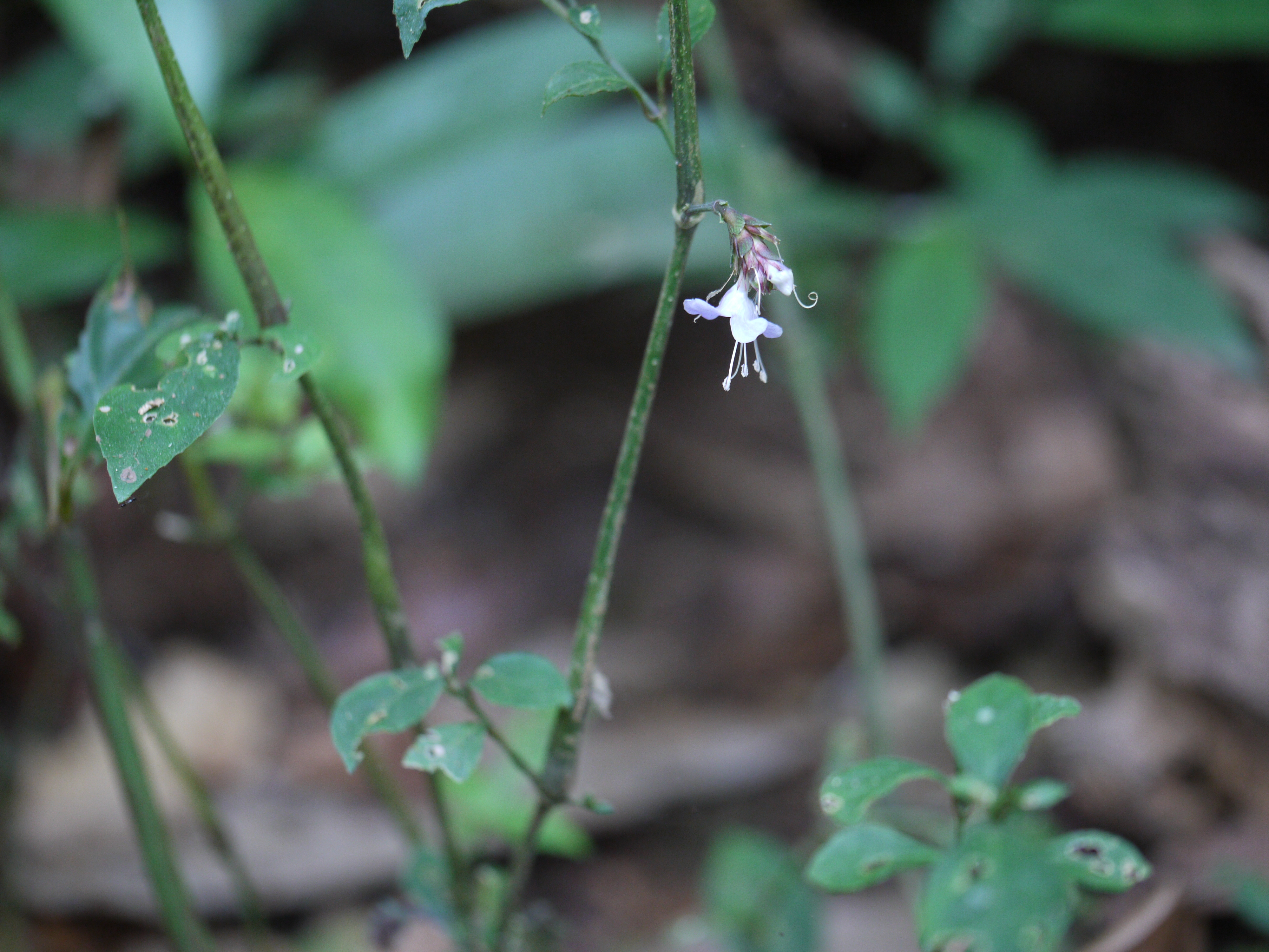 Acanthaceae (acanthus or ruellia family) » Strobilanthes ciliatus Nees stroh-bil-AN-theez -- cone flower ... Dave's Botanary sil-ee-ATE-us or sil-ee-AH-tus -- fringed with hairs ... Dave's Botanary commonly known as: Wadi strobilanthes • Konkani: कारवी karvi • Malayalam: ചിന്നക്കുറിഞ്ഞി cinnakkurinni, കരിങ്കുറിഞ്ഞി karinkurinni • Marathi: वाडी कारवी Wadi karvi • Sanskrit: सहचरः sahacarah, सैरीयकः sairiyakah • Tamil: சின்னக்குறிஞ்சி cinna-k-kurinci, குறிஞ்சி kurinci Endemic to: c & s Western Ghats (of India) References: Flowers of India • Taxonomic status of Strobilanthes warreensis • efloraofindia